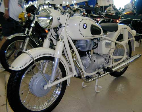 Photo © by Jeff Dean